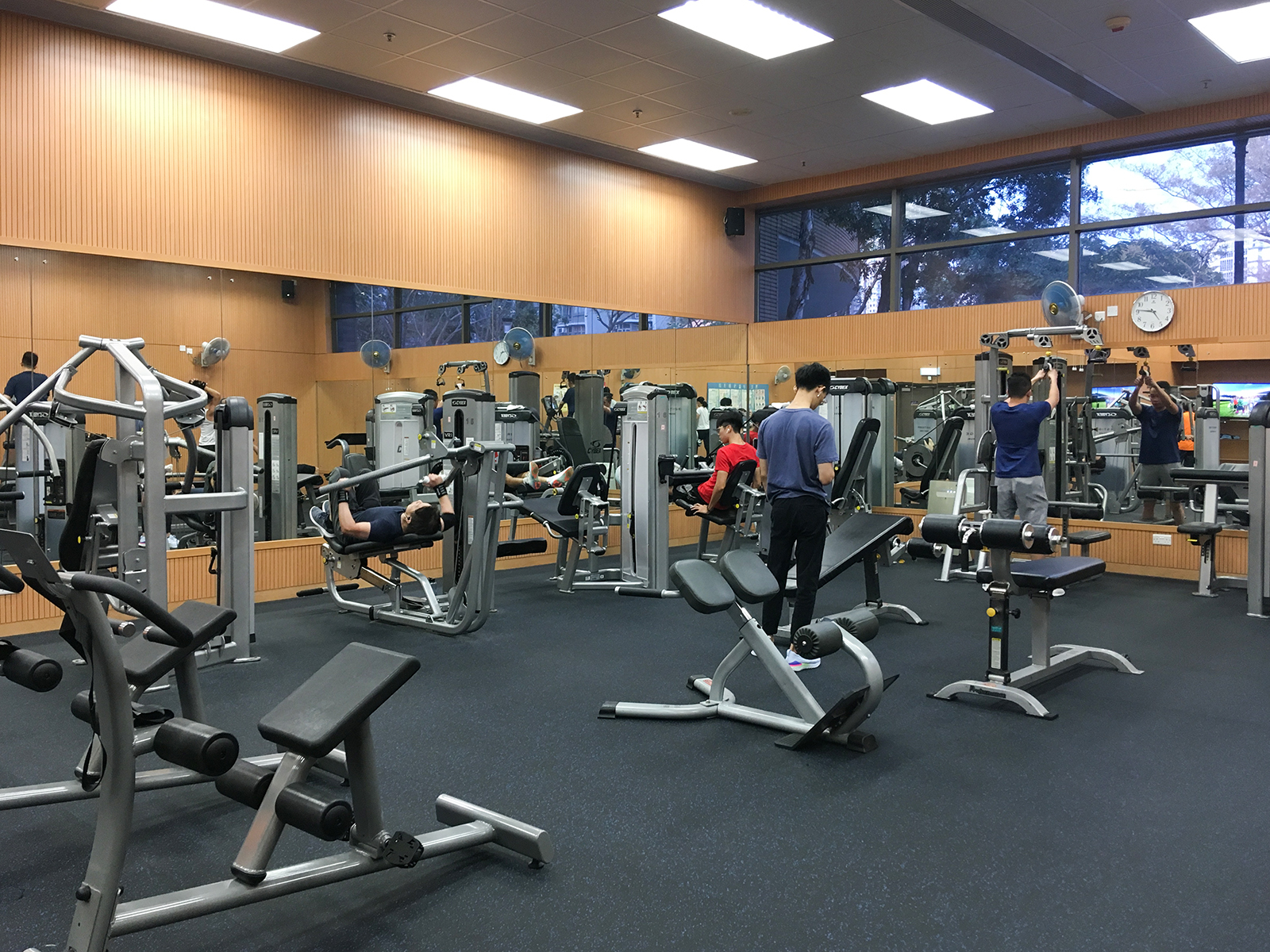 Tin Shui Sports Centre Gym Room